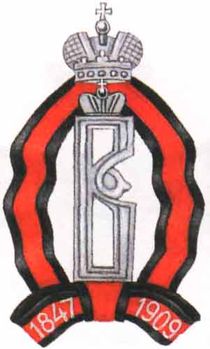 Badge of dragoonsky Guard Regiment